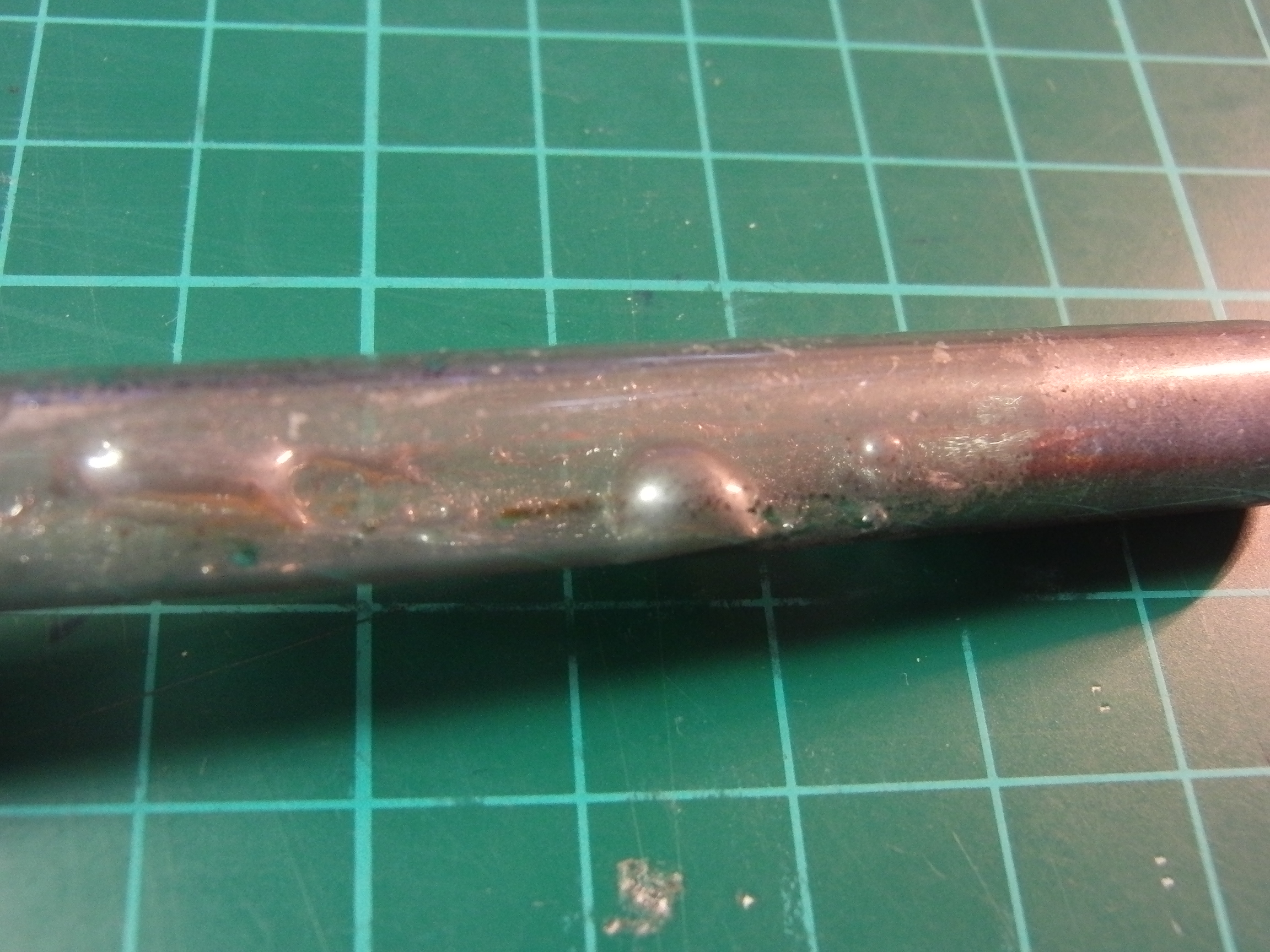 Sodium potassium metal alloy exists as a liquid under room temperature. The metal is shown here in a glass tube.